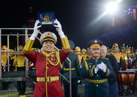 Timothy Mayakin with Senior Colonel Liu Xinbo